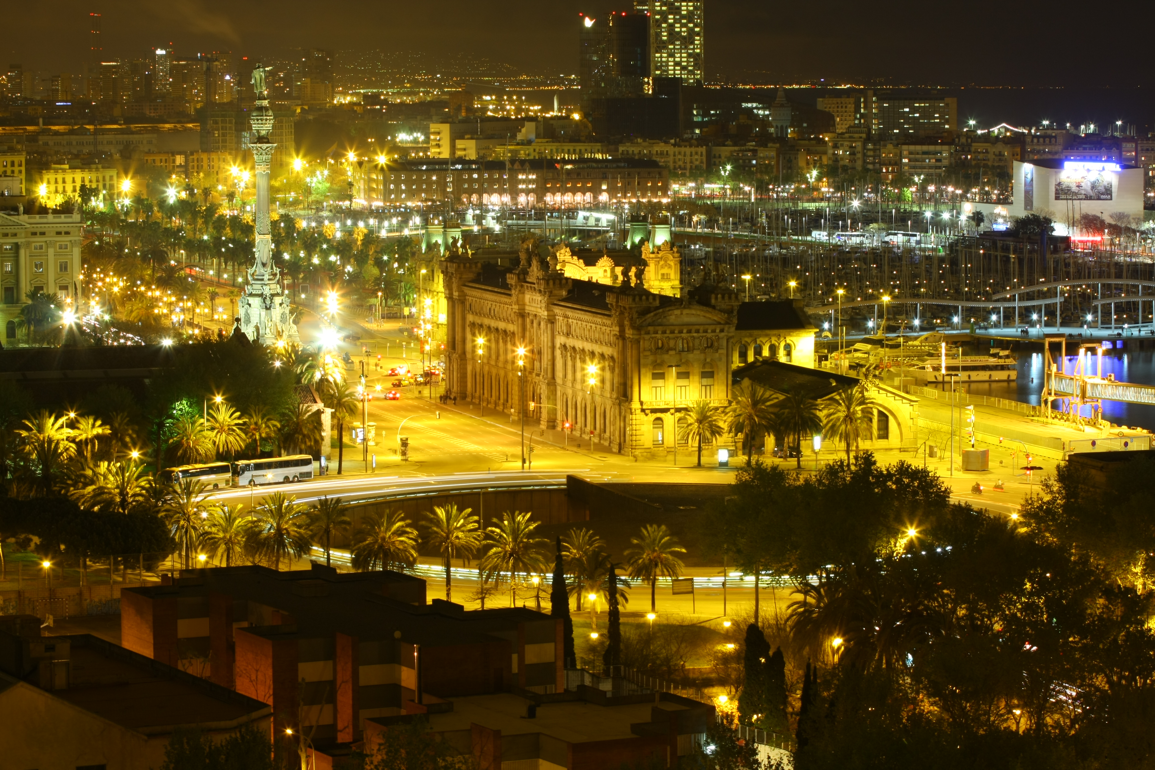 Shot taken from Montjuïc